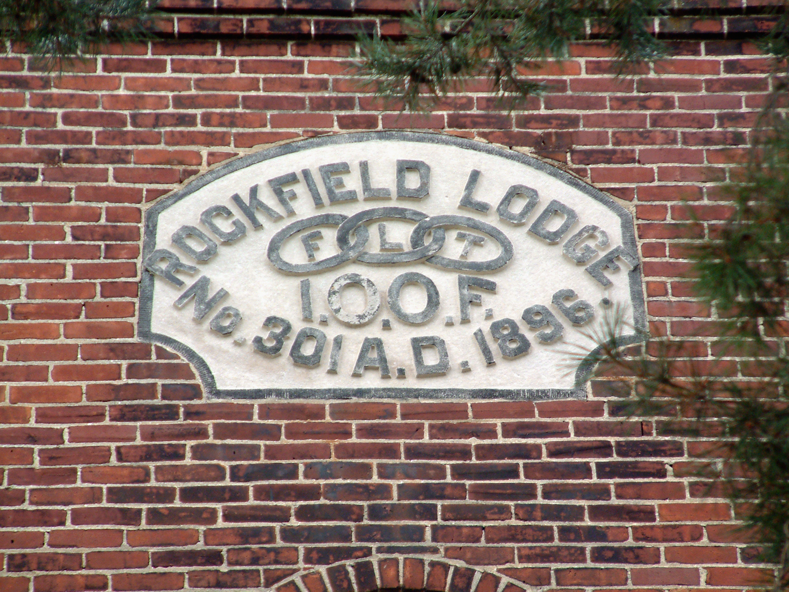 Lettering on a carved stone identifies a building as the Rockfield Lodge (#301) of the Independent Order of Odd Fellows. Date mentioned: 1896. Running stretcher brickwork bond. The building is located at the corner of Walnut Street and Lake Street in the town of Rockfield, Indiana. Photo looks southeast.